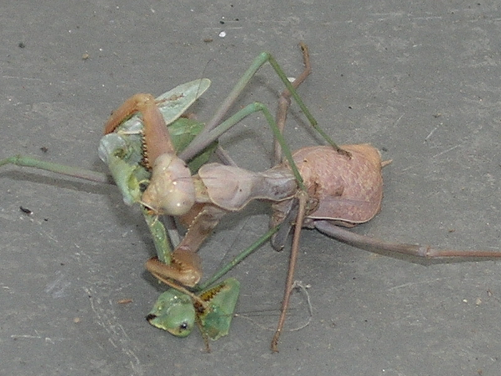 This female mantis was photographed on my terrace devouring a male which I had been previously watching eat crickets in the morning. Photo by H. Mochizuki c 2006. Actually, both of these are females. Males have much longer and differently-shaped wings. Dyanega (talk) 23:09, 14 December 2007 (UTC)